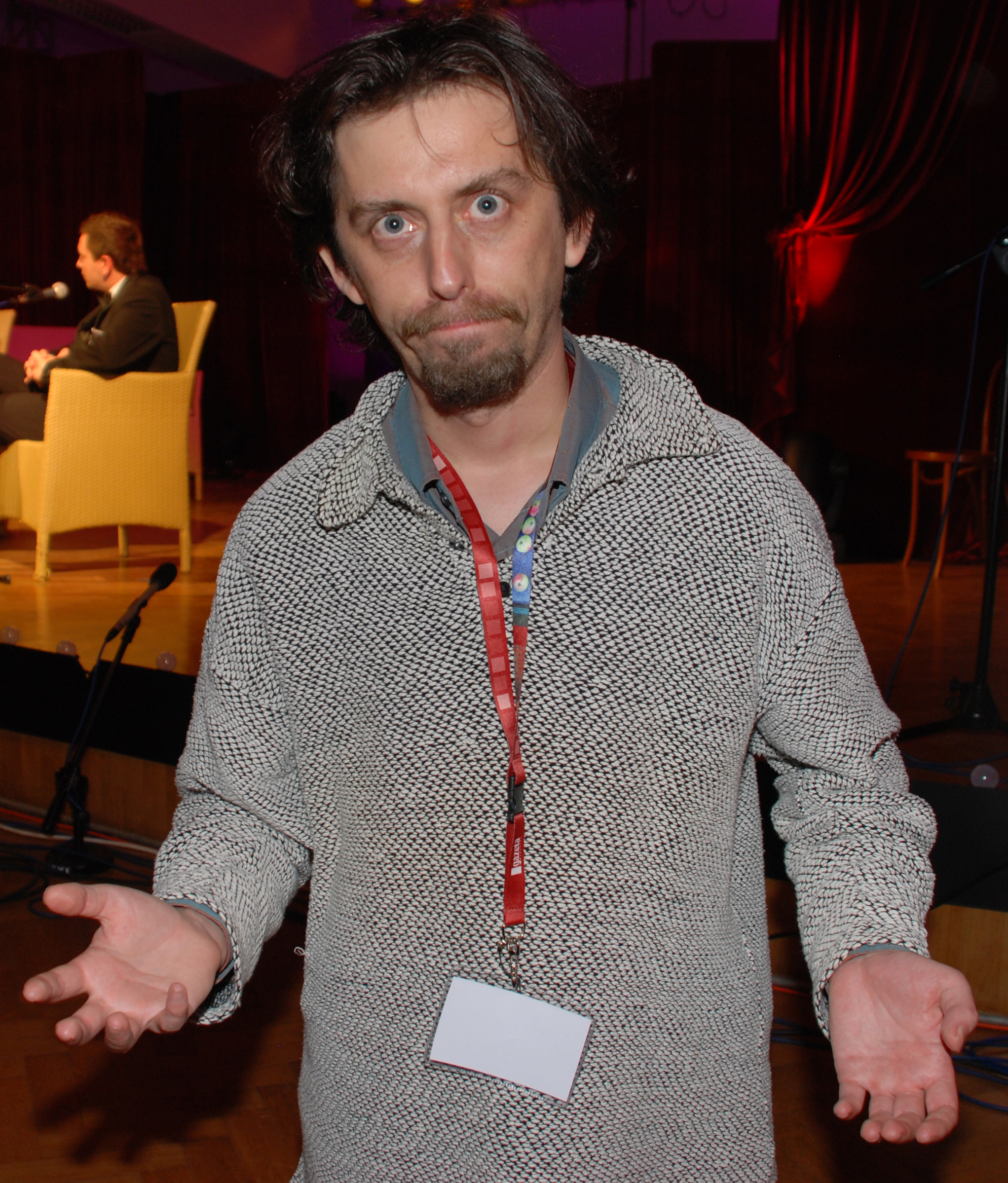 Marek Grabie, a Polish cabaret artist, member of the 2007 Festival of Cabaret's Chapter of the Statuette.